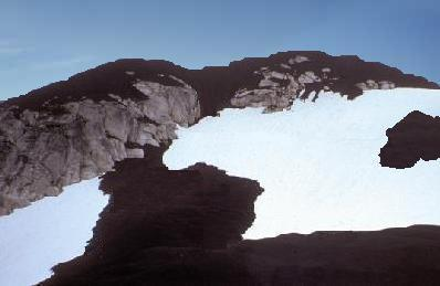 A photo of The Volcano in northwestern British Columbia, Canada.